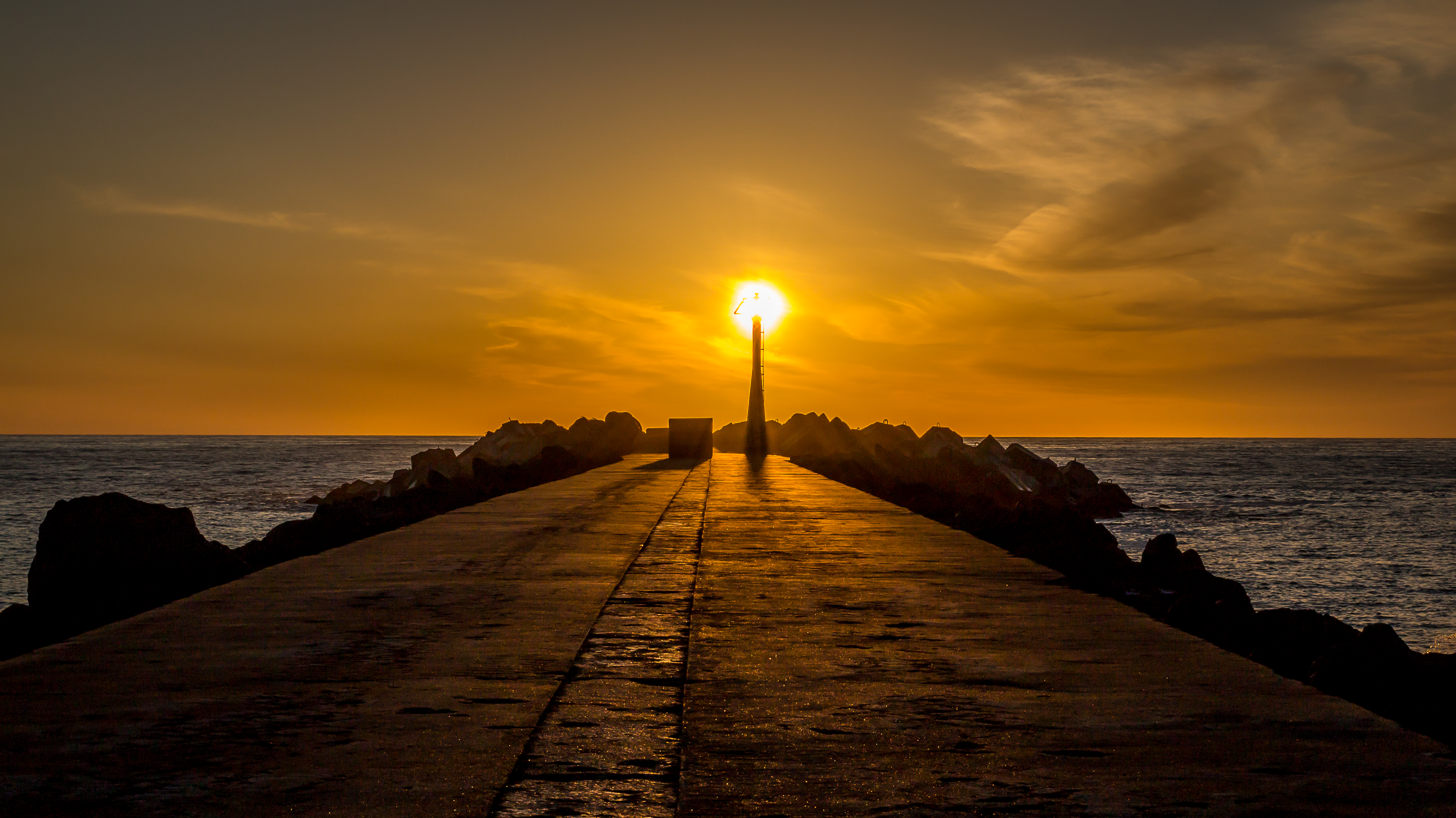 Sunset at the end of the pier of Adour River, Anglet-Angelu. Labourd, Basque Country.